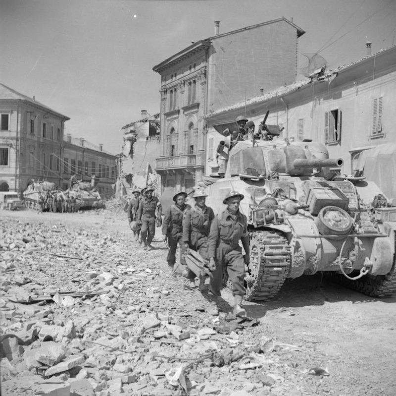 The British Army in Italy 1945 Stretcher bearers pass Sherman tanks in Portomaggiore, 19 April 1945.